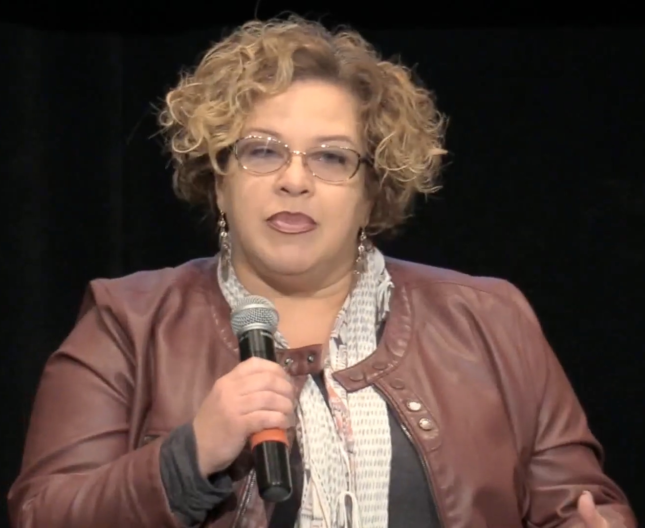 American actress and playwright Mildred Ruiz-Sapp at the Oregon Shakespeare Festival